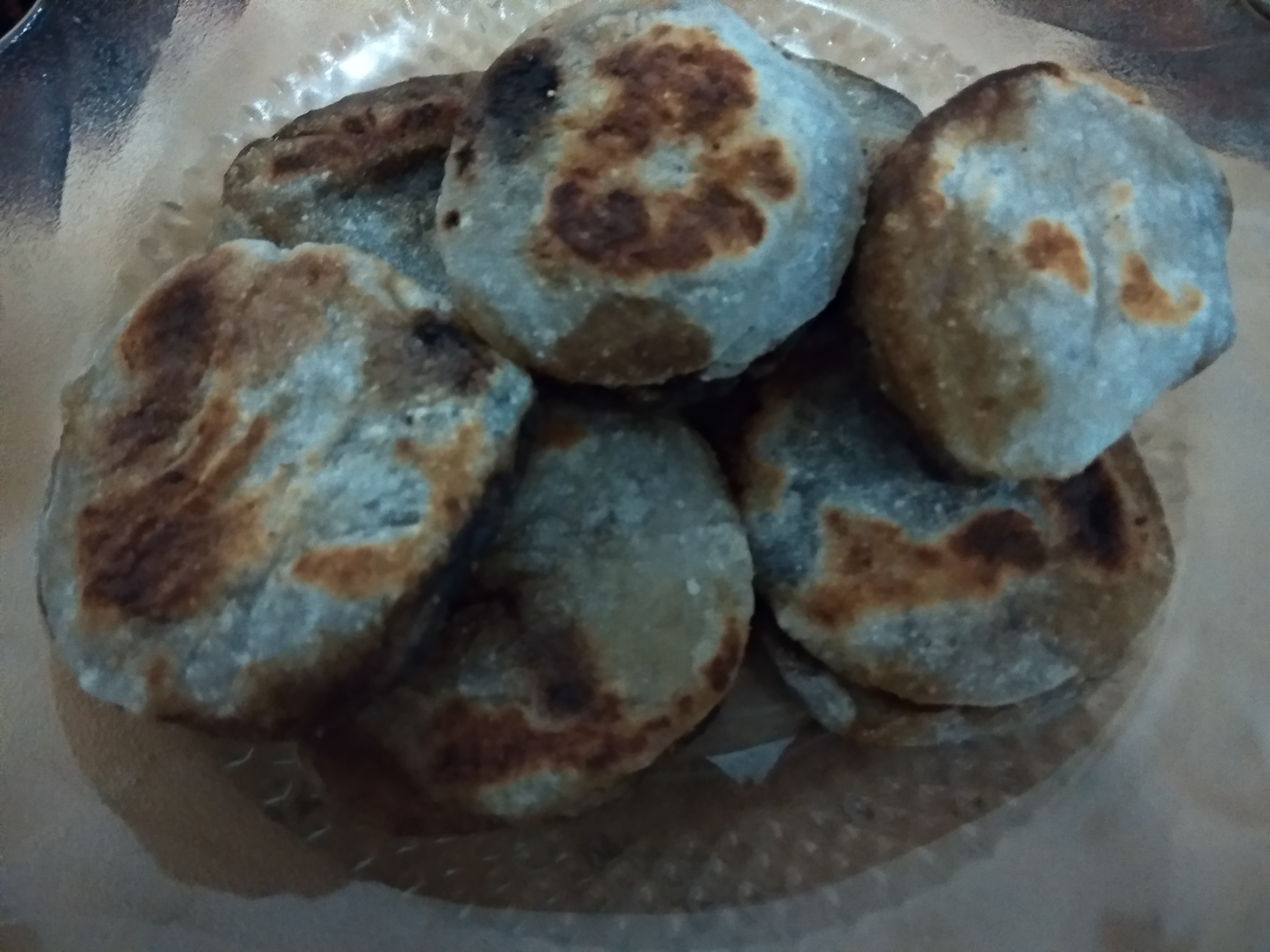 Pempek Tunu (grilled pempek), stuffed with grinded dried shrimp and bird's eye chili, mixed with soy sauce.